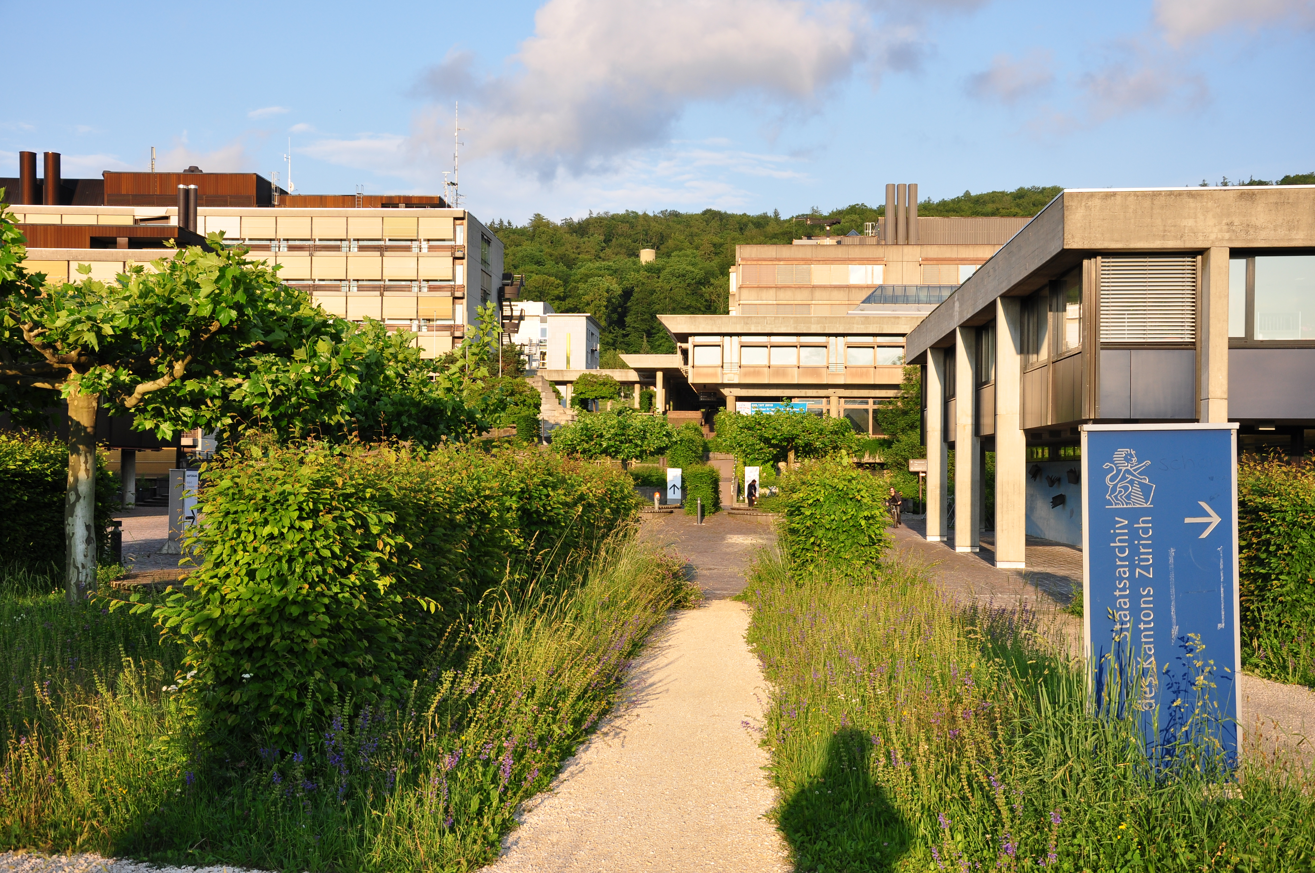 Zürich-Oberstrass : Staatsarchiv (Archives of the Canton of Zürich) at Irchel campus of the University of Zürich.